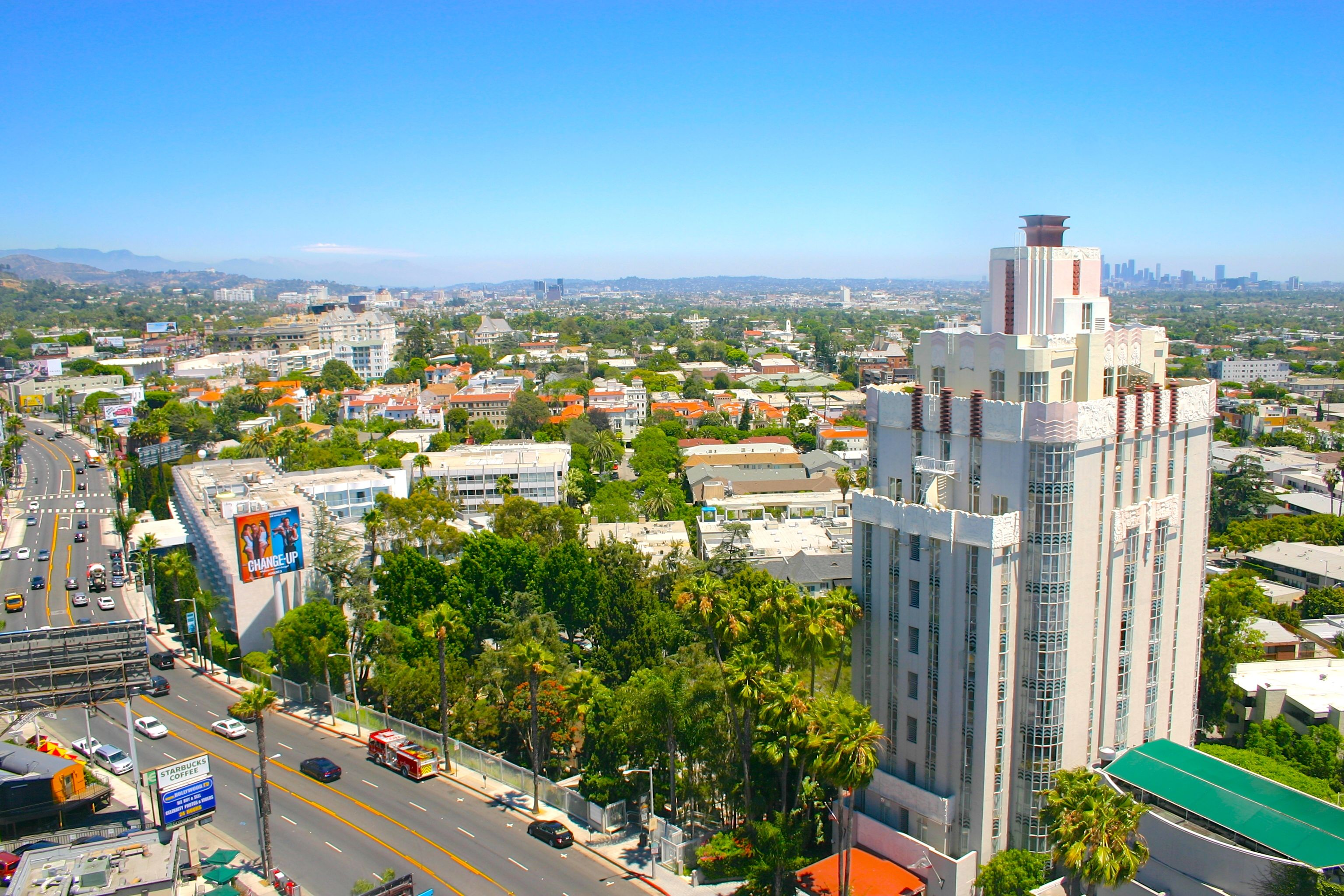 Sunset Tower, 8358 Sunset Blvd. West Hollywood